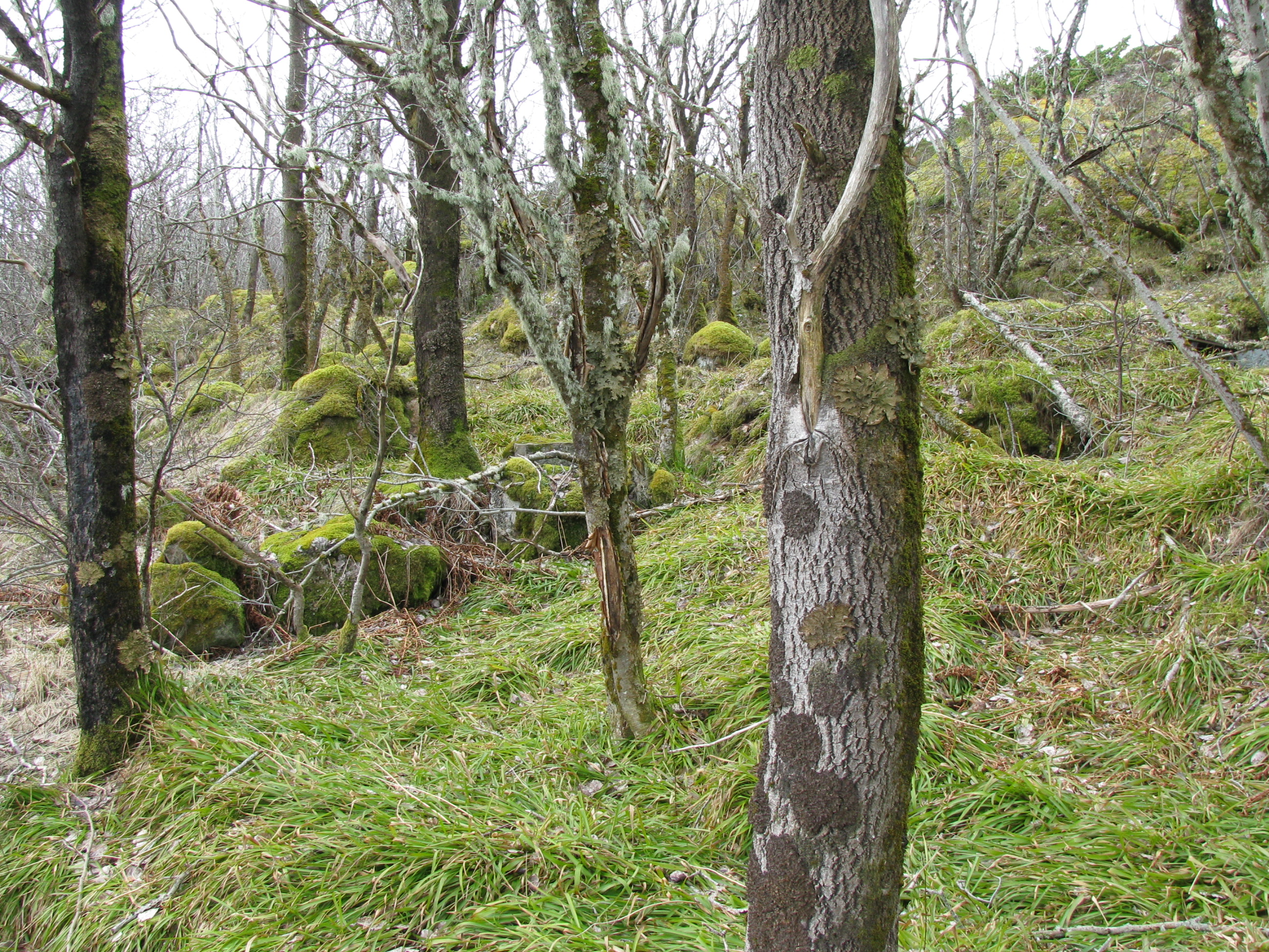 Coastal aspen forest at the Vikna archipelago (central Norway), Nord-Trøndelag county, Norway. The picture is taken early in April, just before the growing season really starts. Lichen and mosses thrives in the oceanic climate.